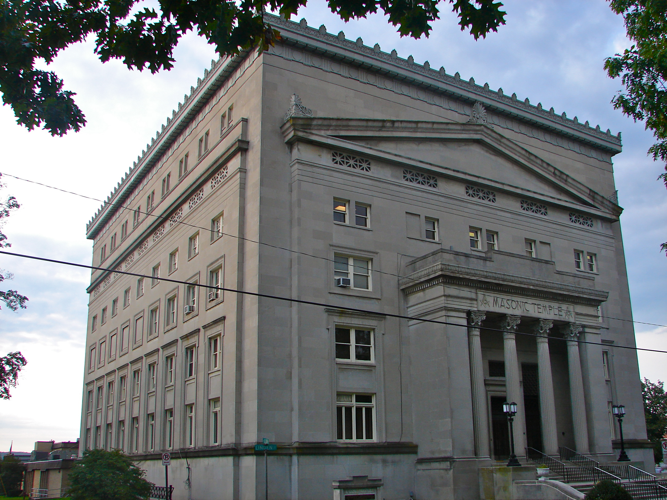 Allentown Masonic Temple on the NRHP since May 5, 2004. At 1524 West Linden Street, Allentown, Pennsylvania. Now used as an office building in addition to Masonic duties. Nice park across the street.